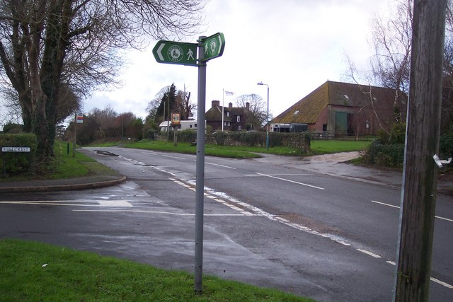 The Greensand Way turns on Chart Road The long distance path heads left down Hillcrest towards the A28 Footbridge. It also heads down Chart Road towards Great Chart. In the background is Great Chart's village sign.